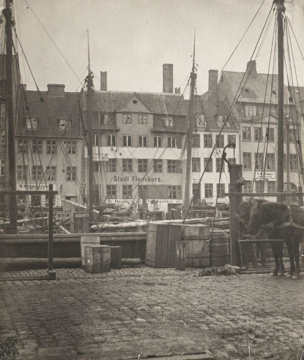 Nyhavn 25-31 in Copenhagen, Denmark